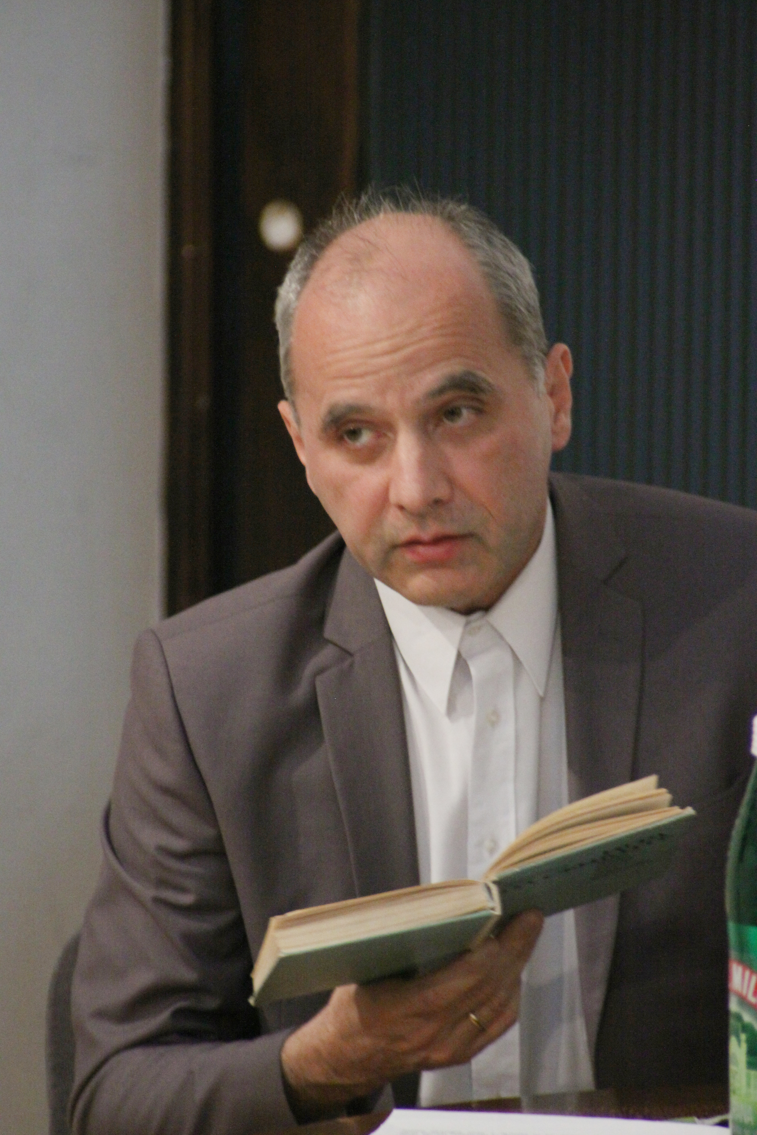 Slavic and Serbian fantasy cycle, University library, Belgrade, Serbia, Dejan Ajdačić, Serbian philologist. Srpski (latinica): Ciklus "Slovenska i srpska fantastika", Univerzitetska biblioteka, Beograd, Srbija, Dejan Ajdačić, srpski filolog